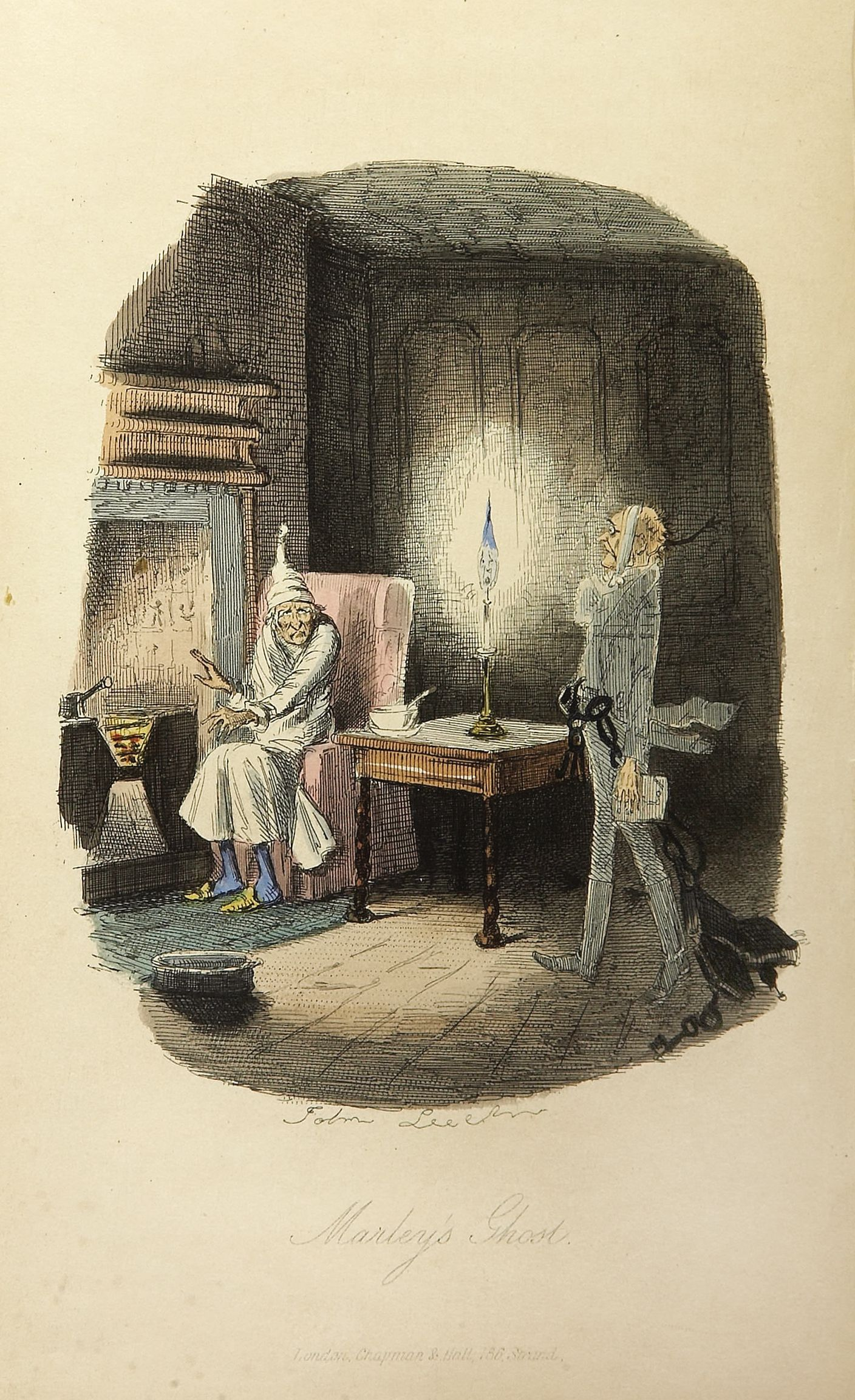 Marley's ghost, from Charles Dickens: A Christmas Carol. In Prose. Being a Ghost Story of Christmas. With Illustrations by John Leech. London: Chapman & Hall, 1843. First edition.